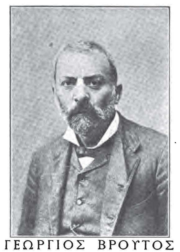 Hestia (1876) Author: Diomedes, Paulos Subject: Greek literature, Modern; Greek periodicals Publisher: [Athēnēsi : s.n. Year: 1894 Possible copyright status: NOT_IN_COPYRIGHT Language: Greek Digitizing sponsor: Google Book from the collections of: Harvard University Collection: americana]